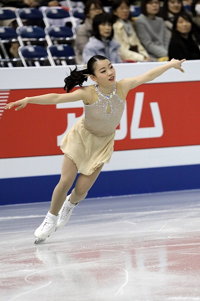 Photos – Grand Prix Final 2017 – Juniors – Ladies (Rika KIHIRA JPN – 4th Place)